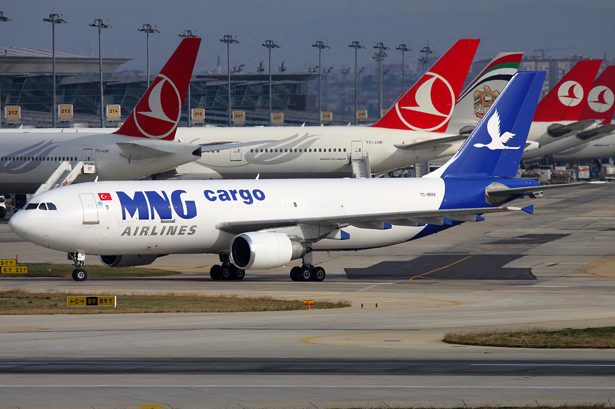 An MNG Airlines Cargo Airbus A300C4-605R at Atatürk International Airport (IST / LTBA)